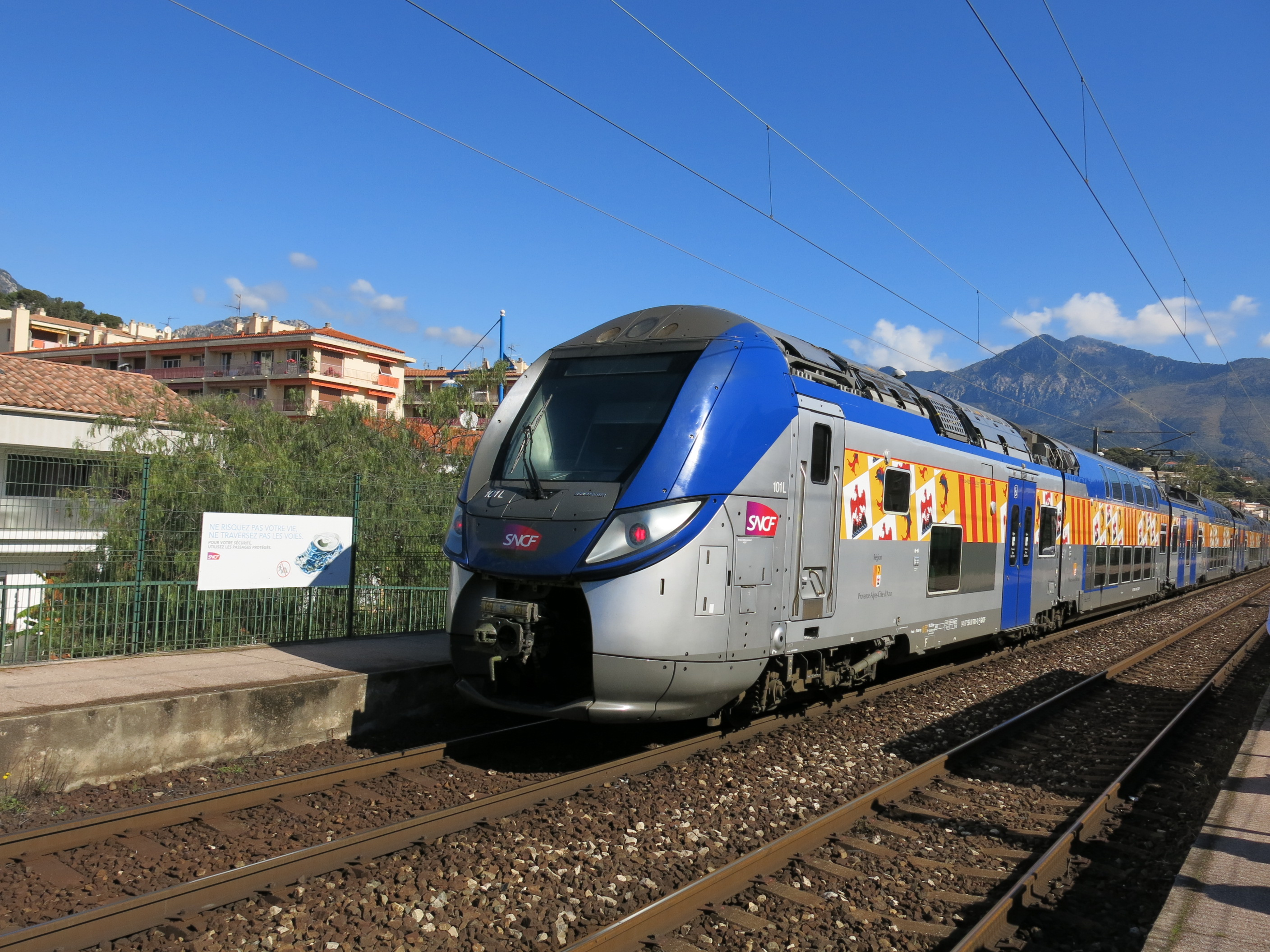 TER PACA in the railway station of Carnolès (Alpes-Maritimes, France).